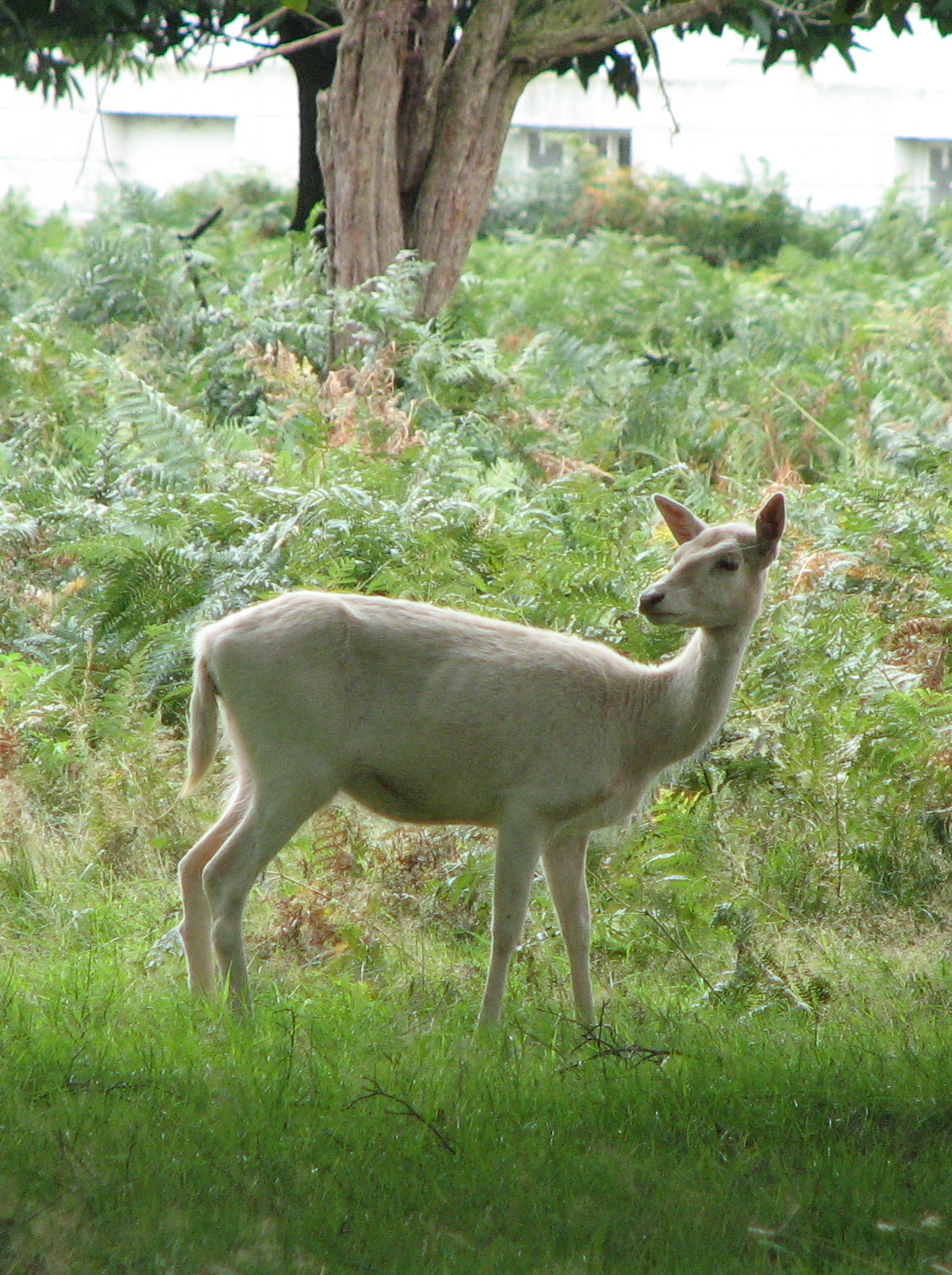 Cropped image of a white deer.